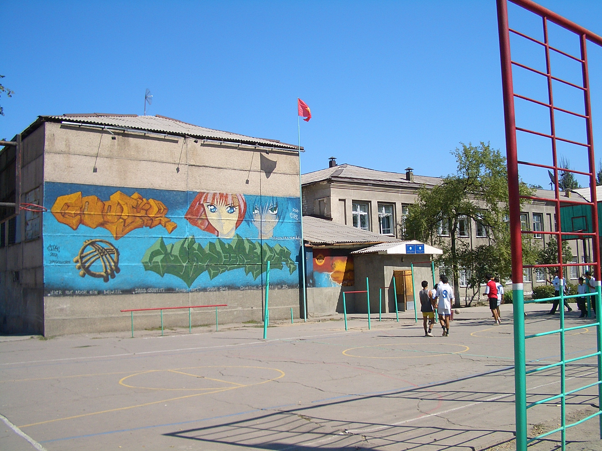 The sports ground of Guettée Humanitarian Gymnasium (also called School No. 23). Bishkek, Kygyzstan.